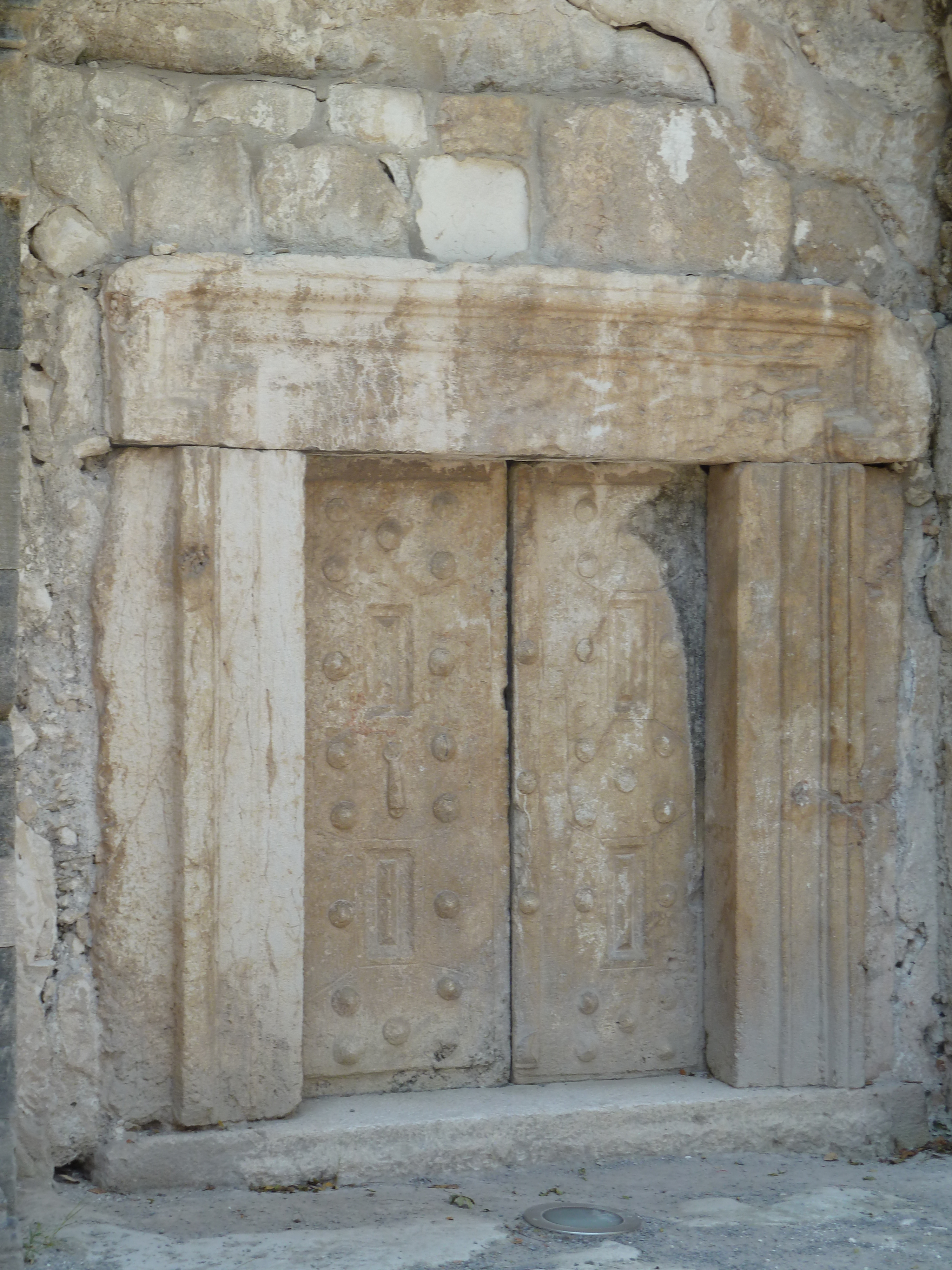 Burial Cave of Rabbi Yehuda HaNassi, Bet Shearim